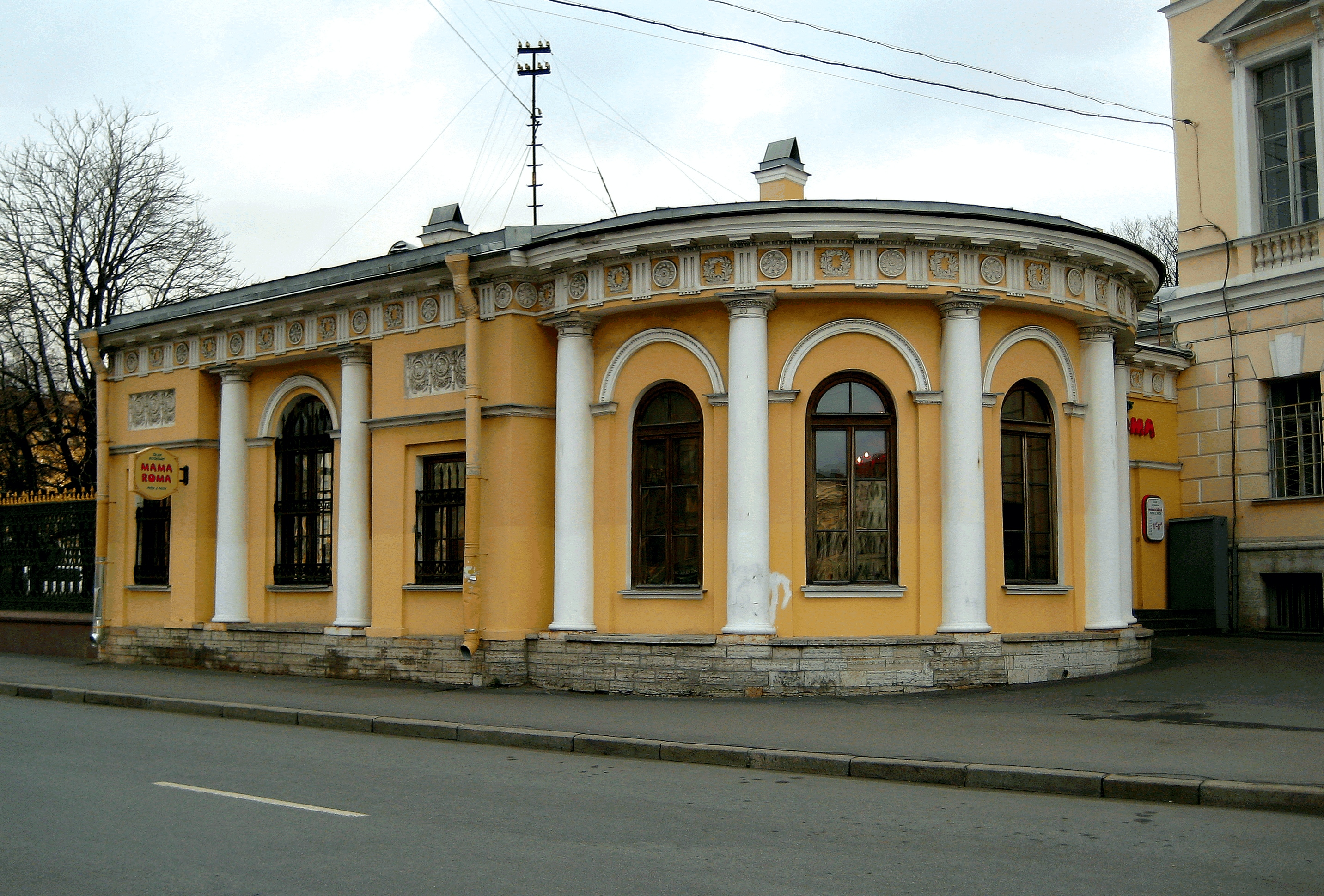 Sheremetevsky Palace. South Pavilion (arch. A.F. Argunov): embankment of the Fontanka River, 34. Central District, St. Petersburg.